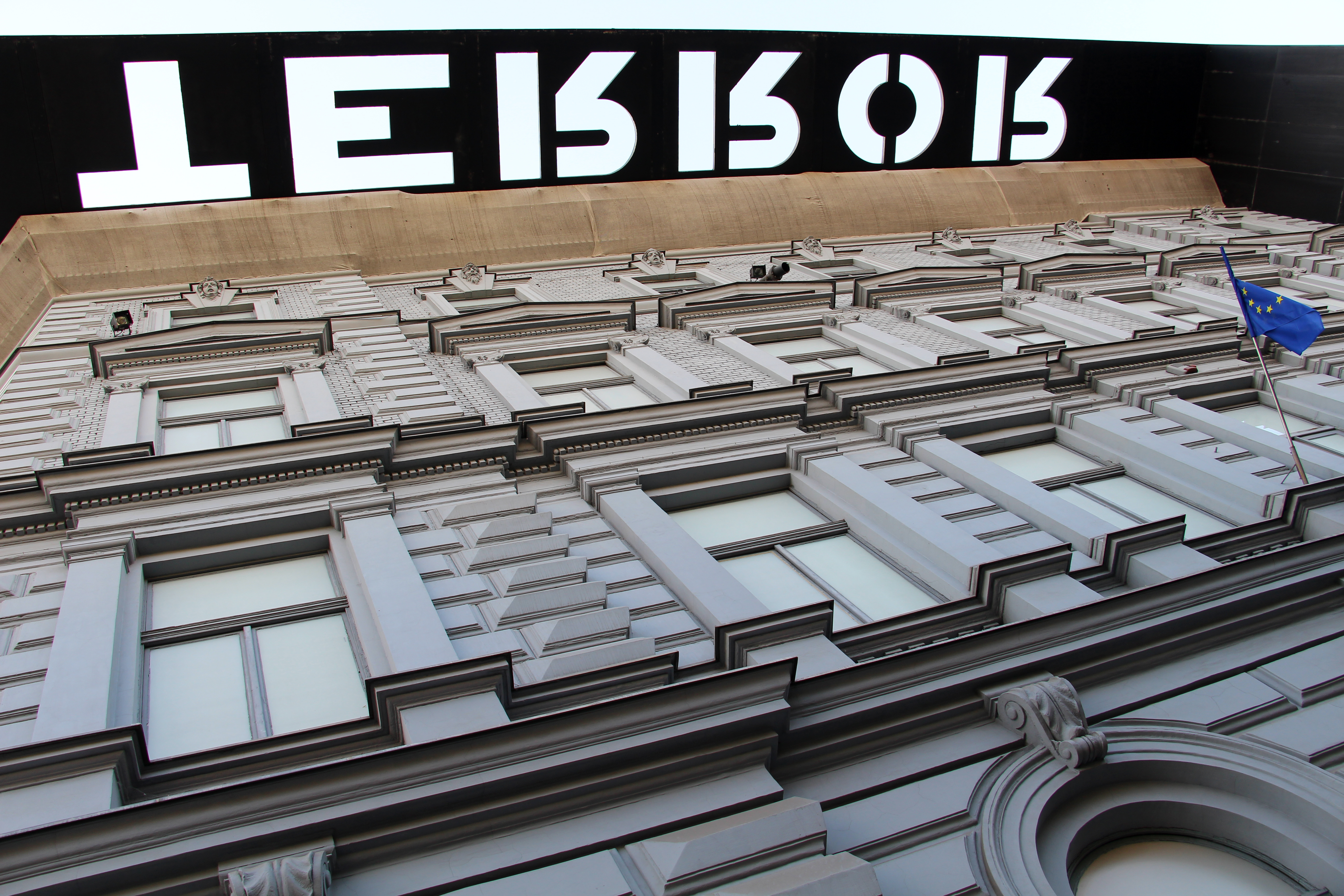 Terézváros - Andrássy útca House of Terror is a museum which contains exhibits related to the fascist and communist regimes in 20th-century Hungary and is also a memorial to the victims of these regimes, including those detained, interrogated, tortured or killed in the building. The building was used by the Arrow Cross Party and AVH. During the year-long construction work, the building was fully renovated inside and out. Arch. Attila F. Kovács, János Sándor and Kálmán Újszászy 2000-02